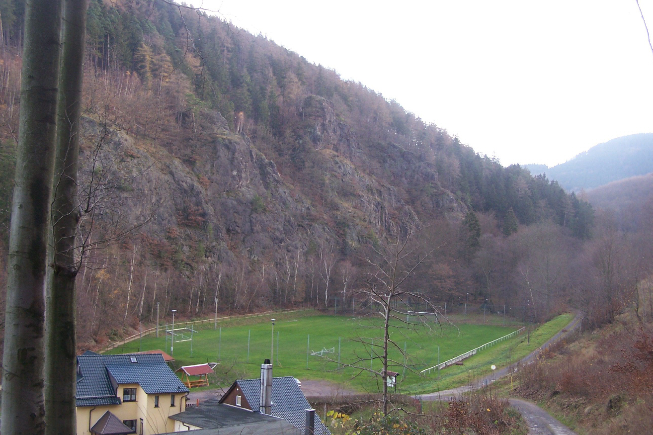 The Treppenstein near Winterstein village.